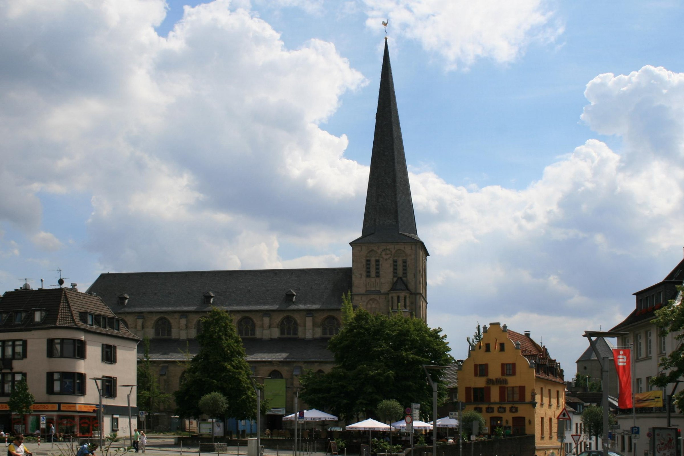 Cultural heritage monument No. K 055 in Mönchengladbach